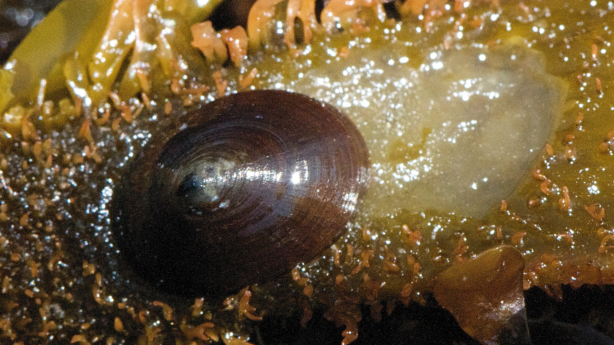 Discurria insessa grazing on the feather boa kelp Egregia menziesii.